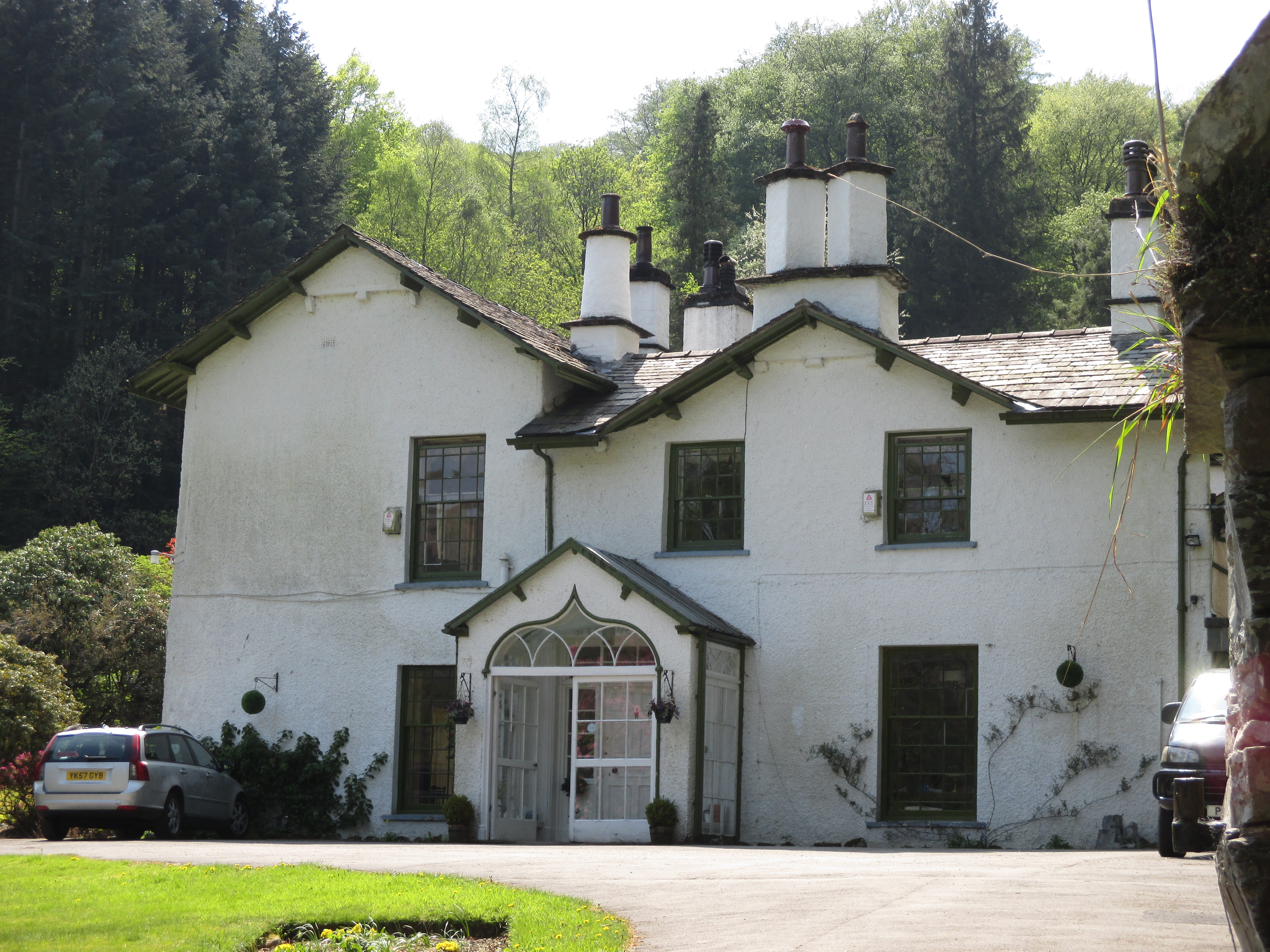 Fox Ghyll, three-quarters of a mile south of Rydal, Cumbria, formerly the home of Thomas De Quincey.